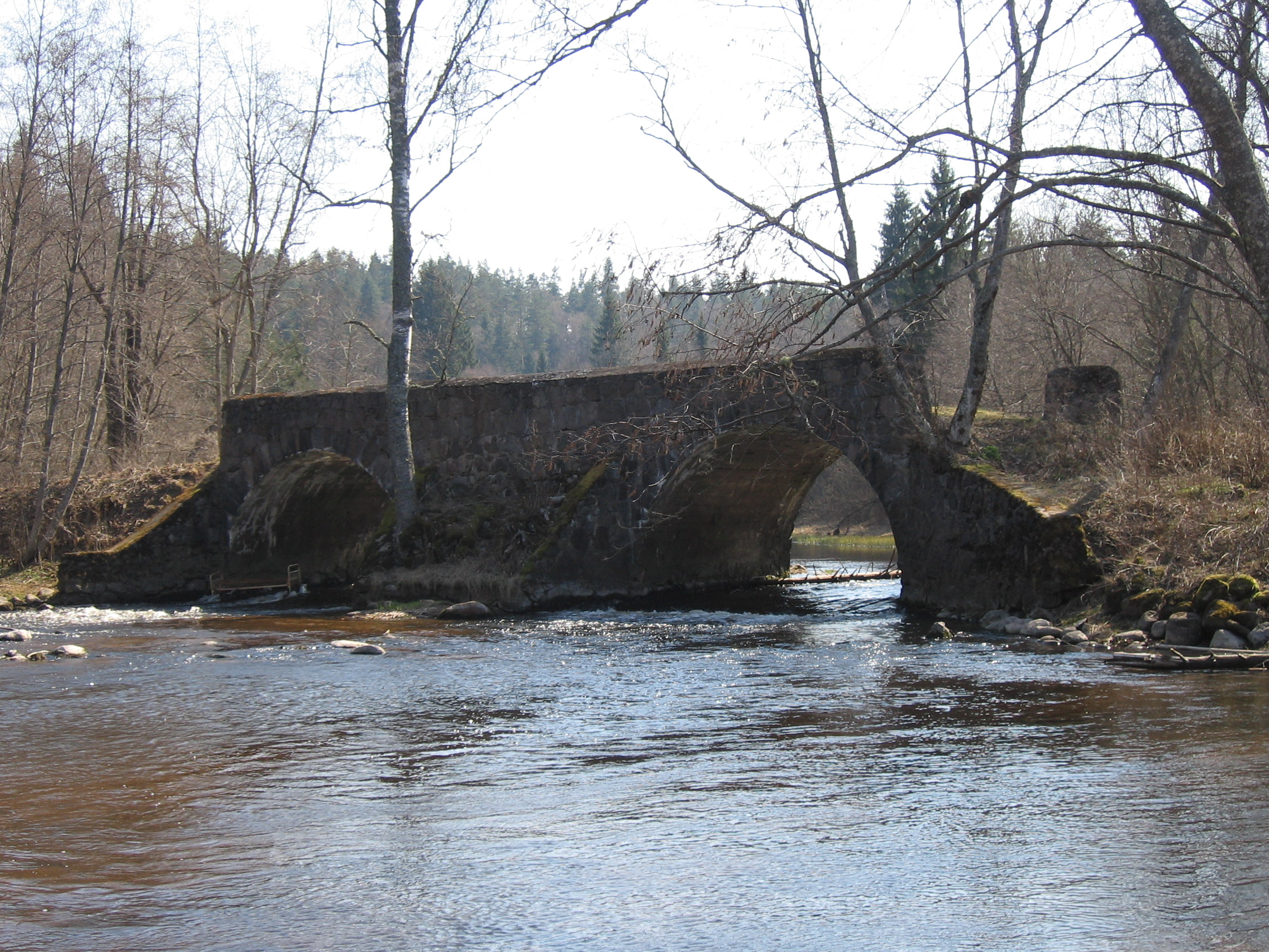 Otten watermill dam